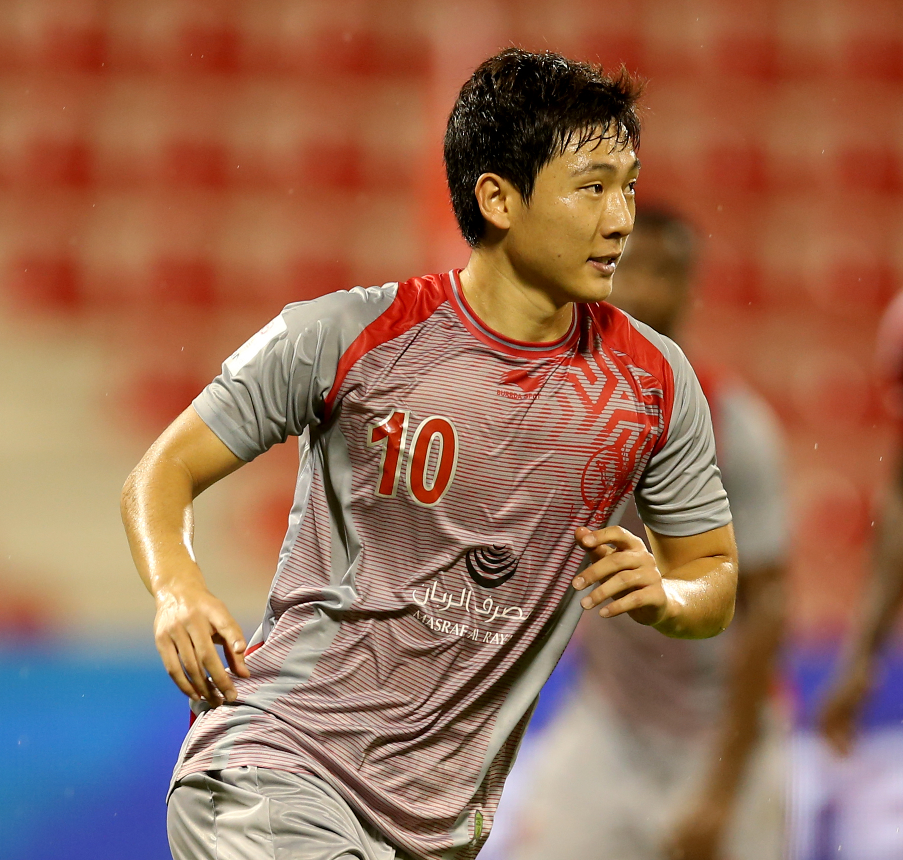 Qatar Stars League side Lekhwiya's South Korean professional Nam Tae-Hee during a game in Doha. Pic by Mohan